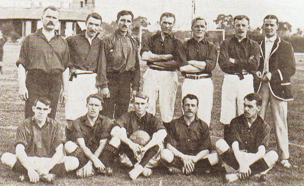 British Club of Mexico, a defunct club that played in the Mexican league in early 1900s.